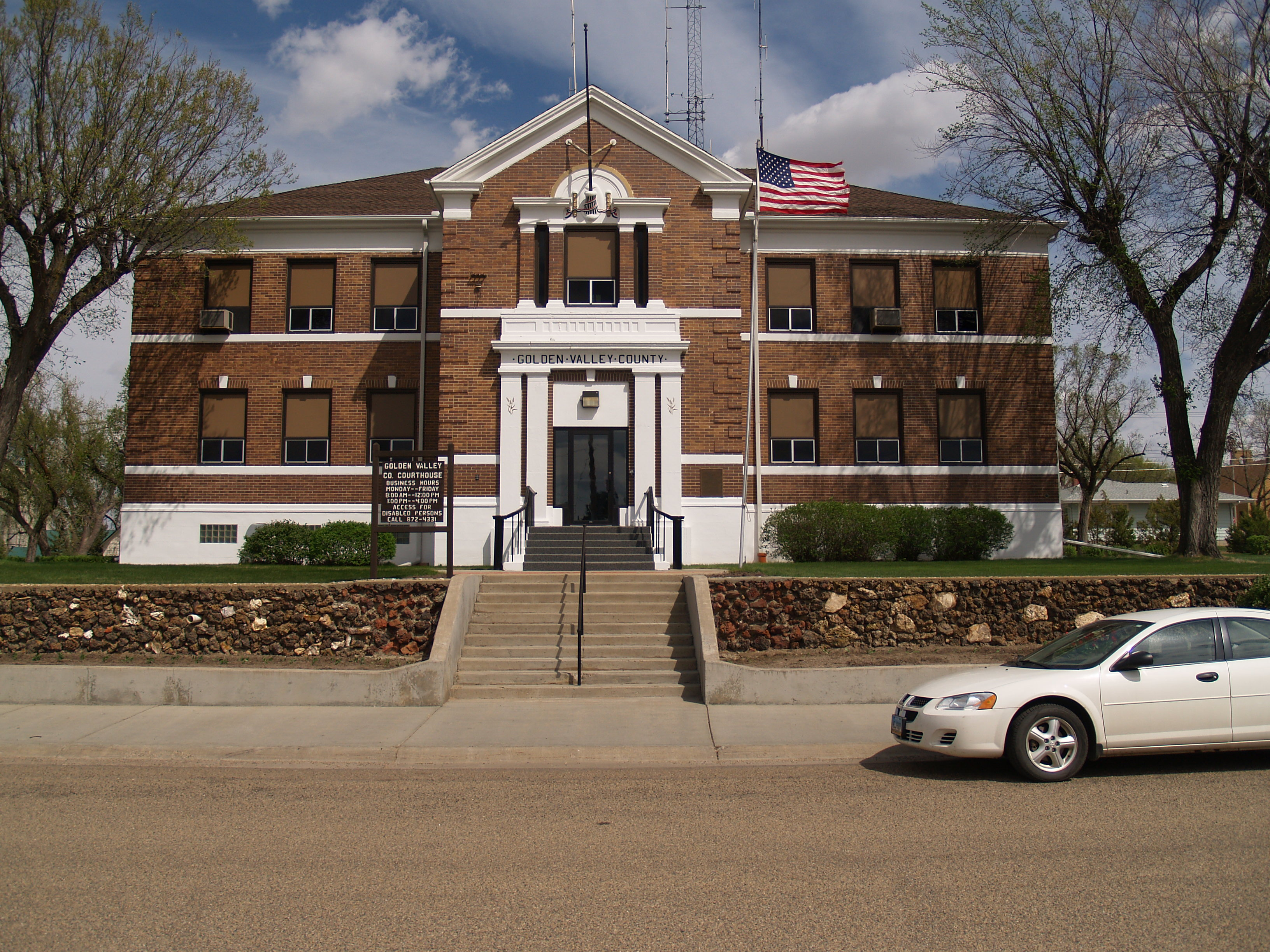 Golden Valley County Courthouse in Beach, North Dakota. Listed on the National Register of Historic Places.